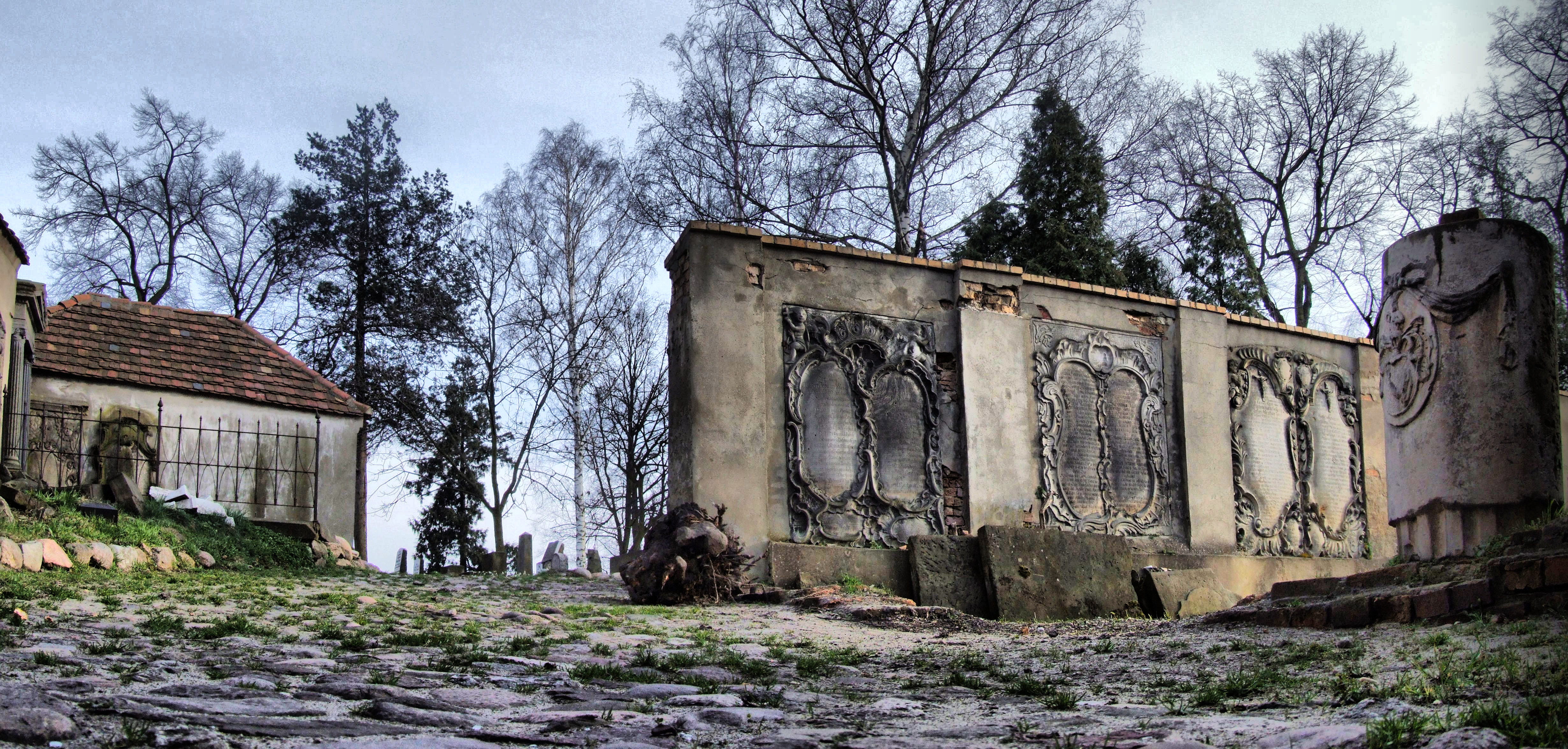 a tomb museum ("lapidarium") in Kożuchów